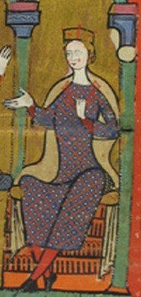 Liber Feudorum Maior